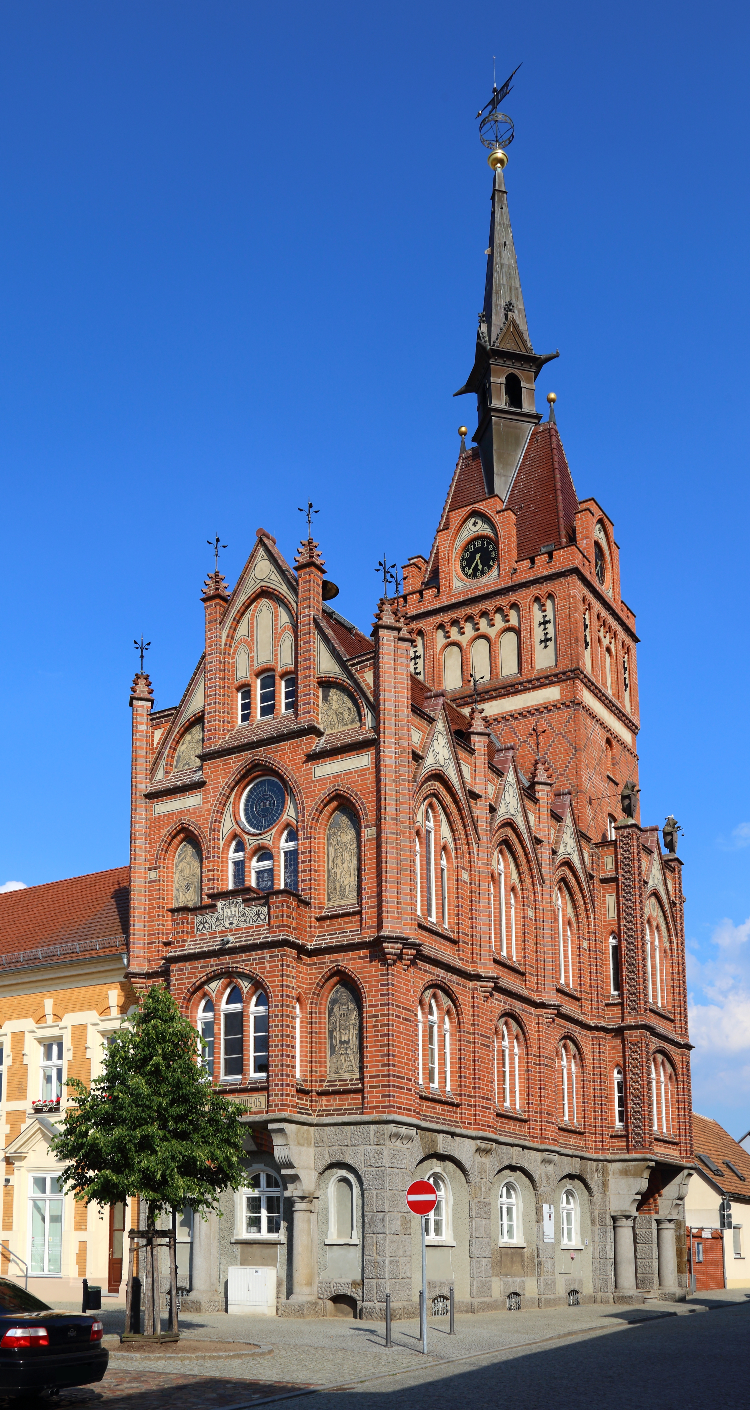 The Town Hall of Golßen, Landkreis Dahme-Spreewald, Brandenburg, Germany.